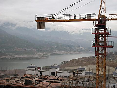 Hanyuan